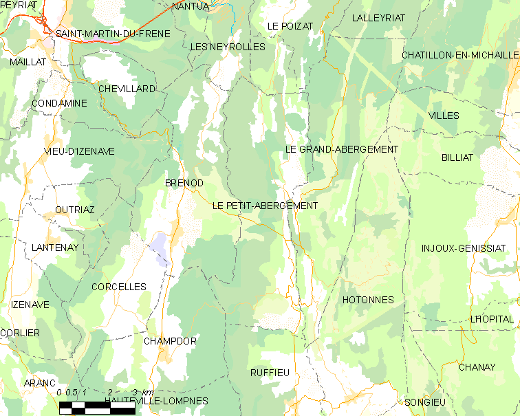 Map of French commune: Le Petit-Abergement Map commune FR insee code 01292.png